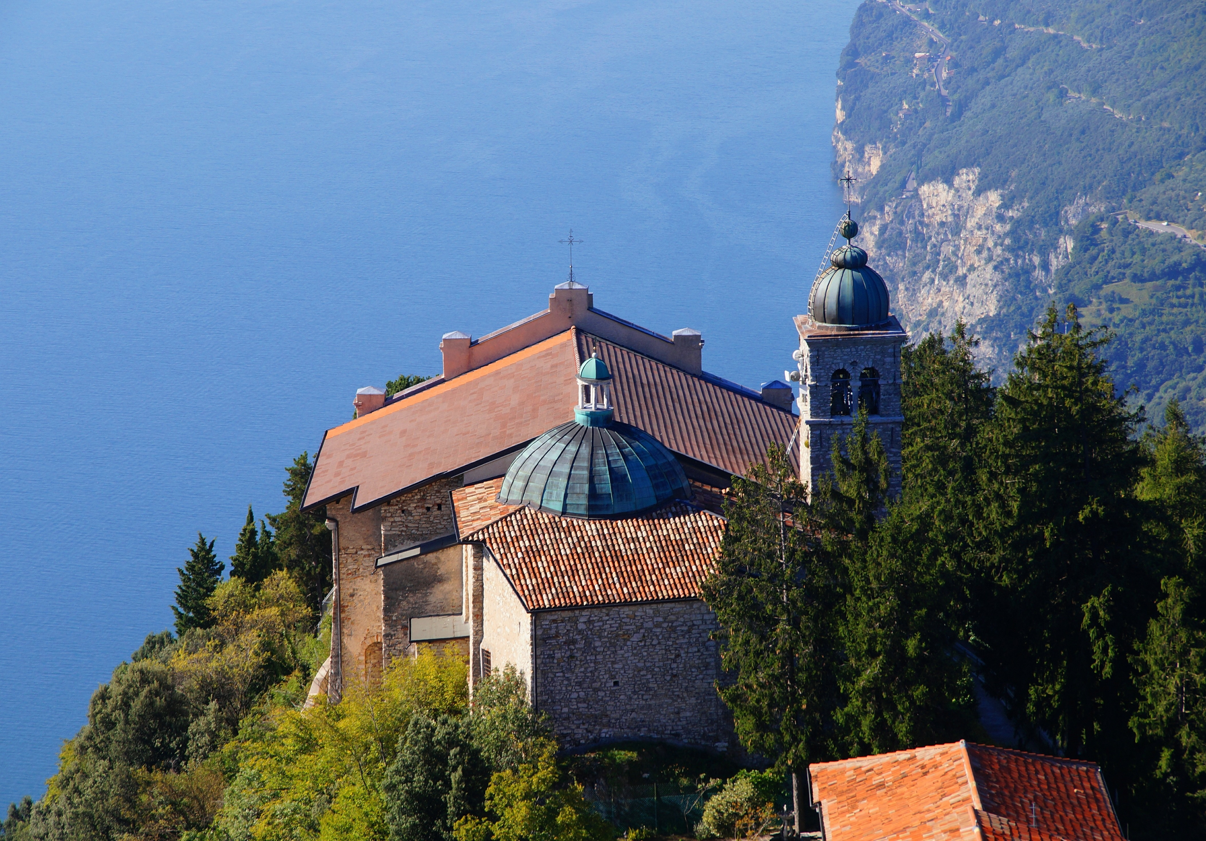 View of the „Madonna di Monte Castello“ on the Monte Castello in Tignale (Gardola).